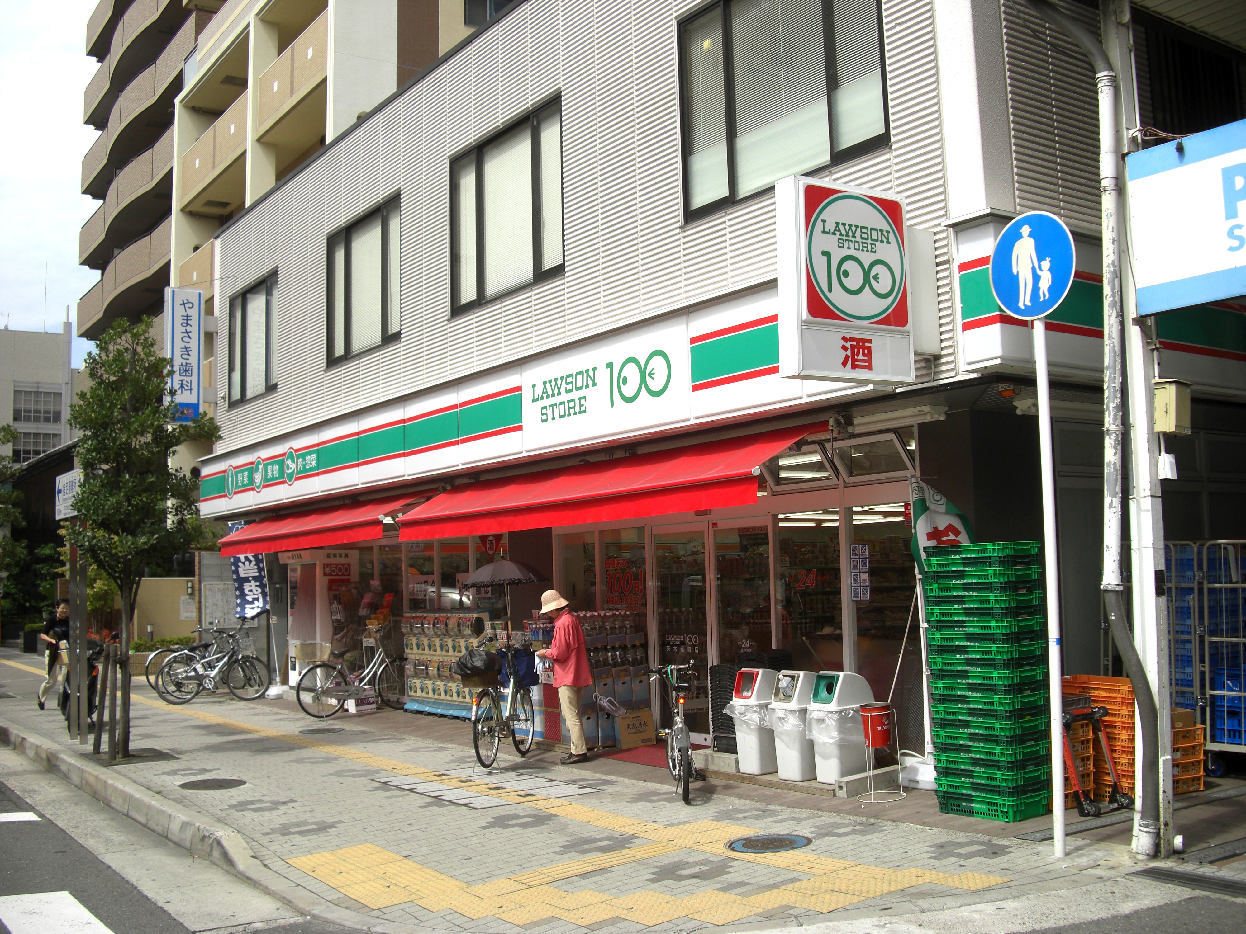 LAWSON STORE 100 Ibaraki Motomachi,Motomachi Ibaraki-City Osaka Japan.